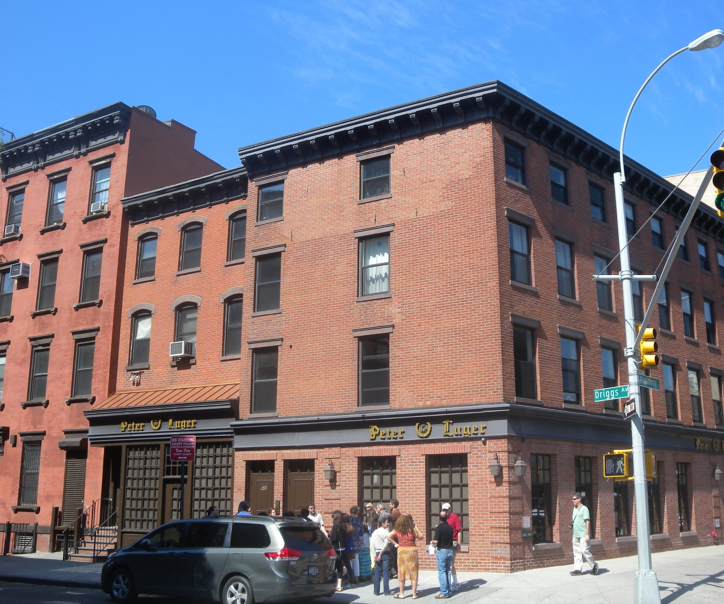 Looking west across Broadway and Driggs at Peter Luger Restaurant on a sunny morning.